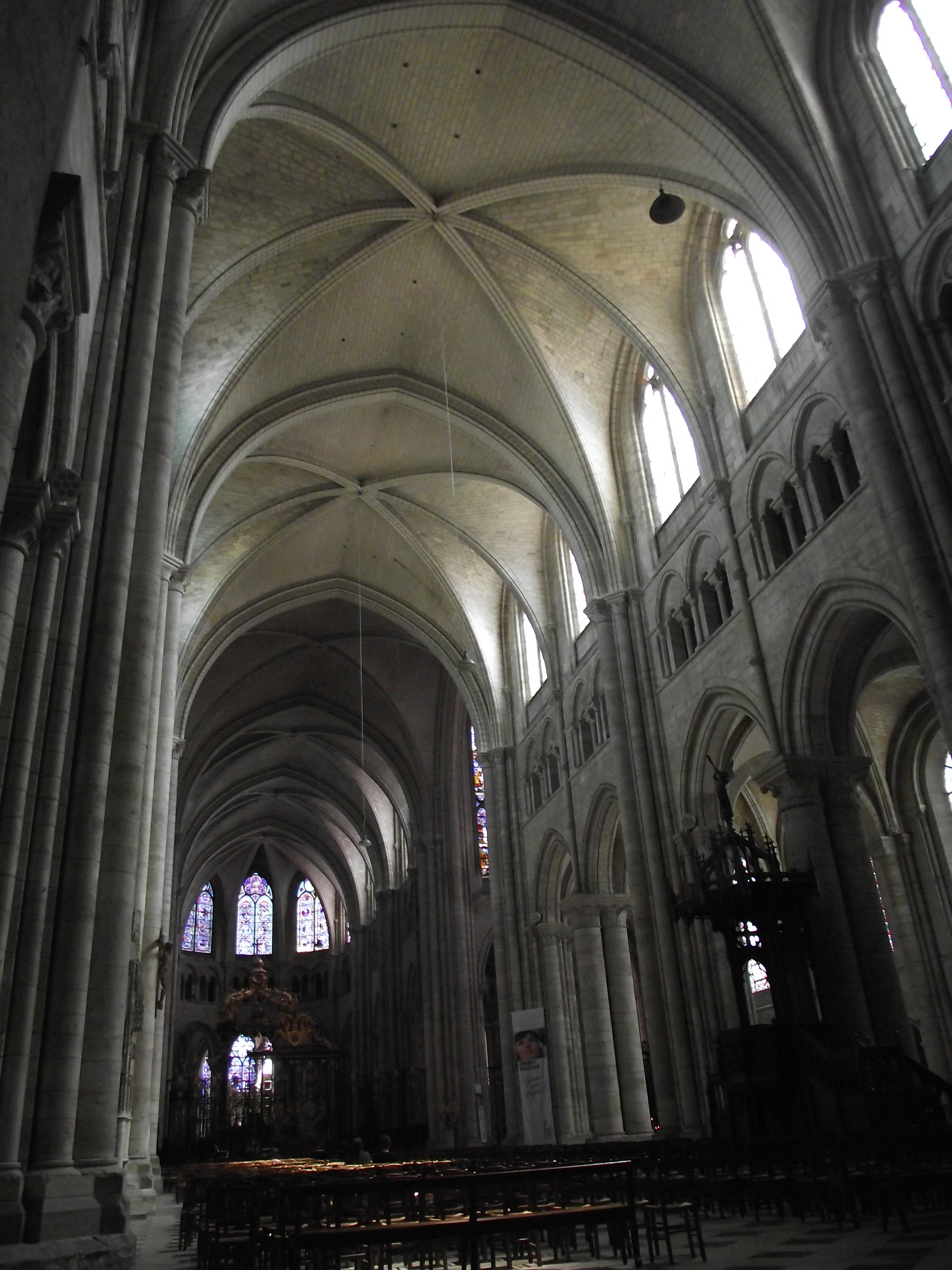 Sens, Interior of St. Stephen's Cathedral